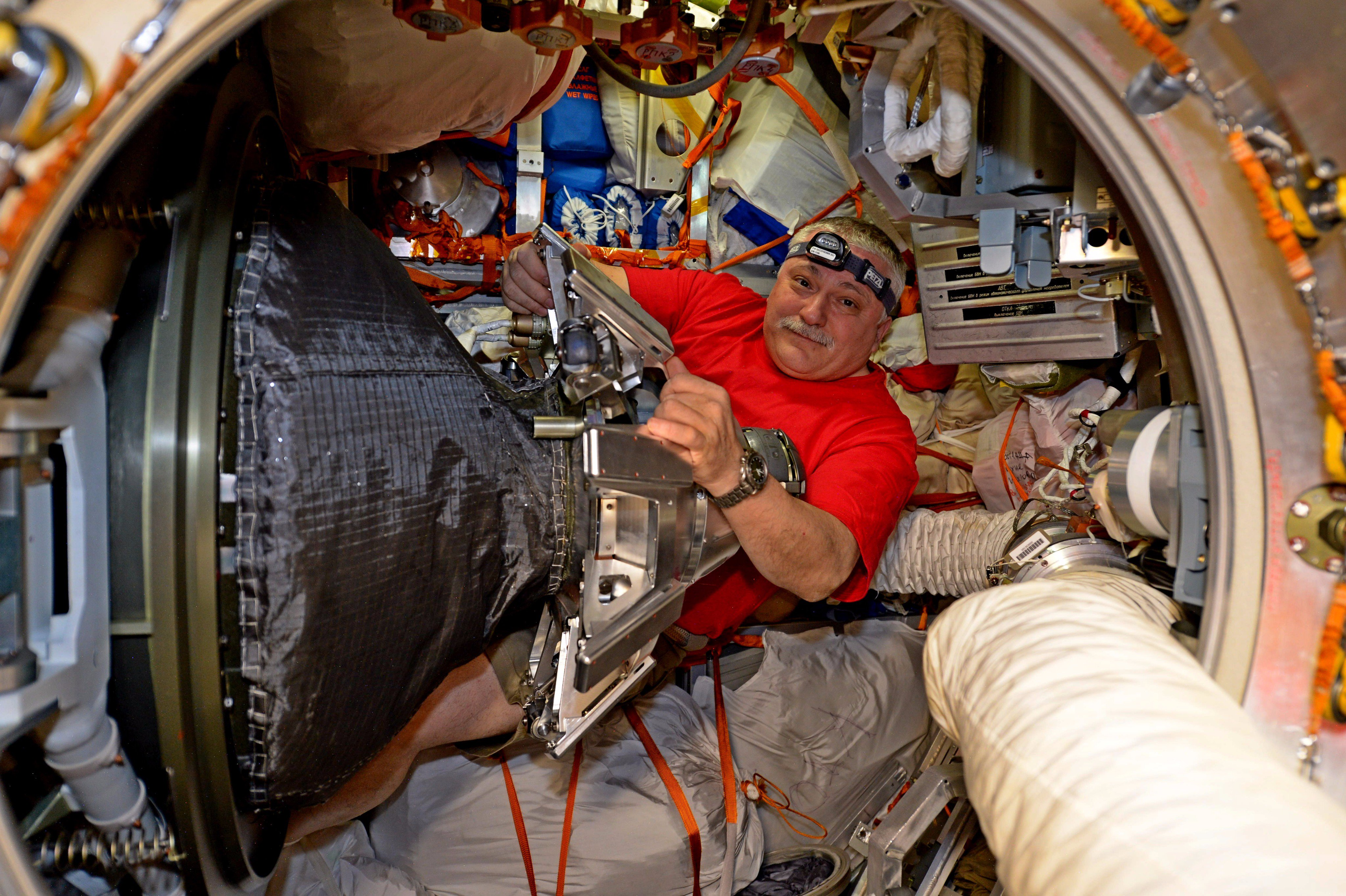 We say goodbye to Progress craft tomorrow, but first we pack it full of trash & NOBODY does it better than my buddy Fyodor- the pack-master!